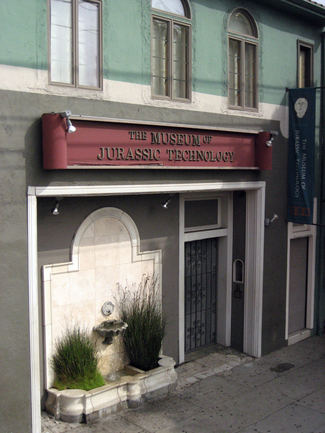 Museum of Jurassic Technology Facade - 9341 Venice Blvd. in Culver City, CA